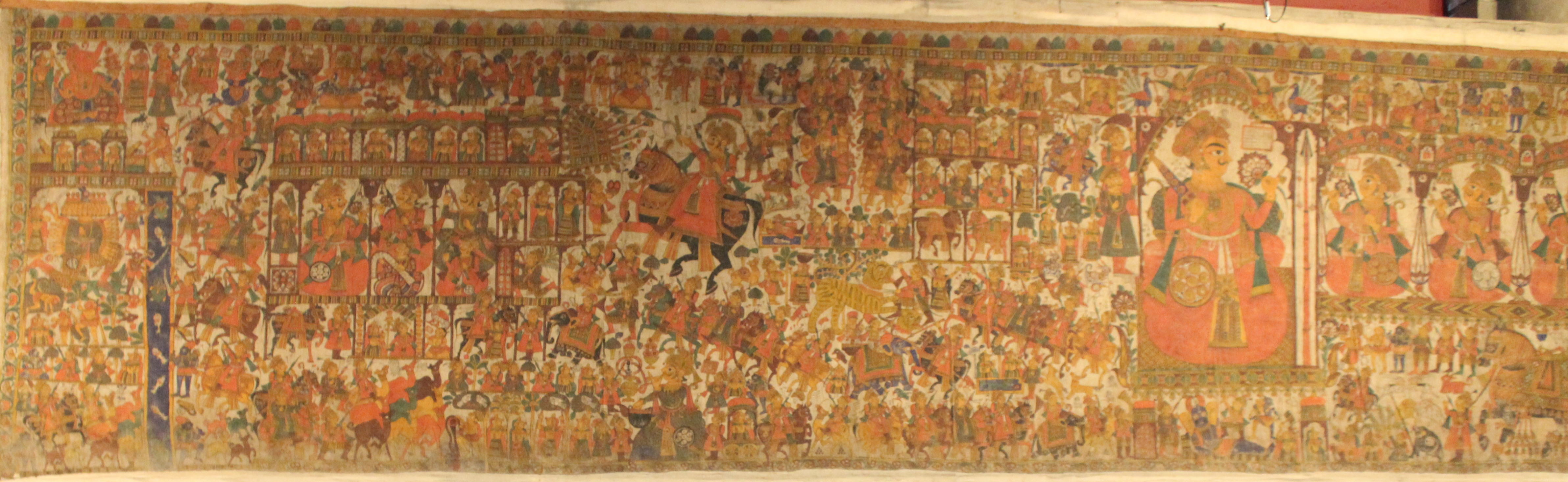 a part of pabuji ka phad as displayed in the National Museum, New Delhi during the exhibition of the Body in Indian Art